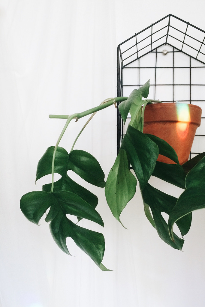 Rhaphidophora tetrasperma as a houseplant: a cutting from a mature plant, rooting in moist sphagnum moss.